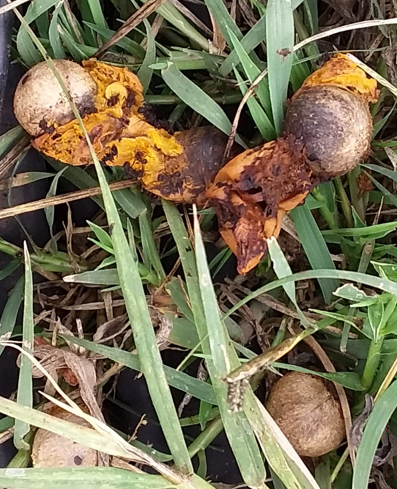 Pampas' fox dung with seeds of Butia capitata